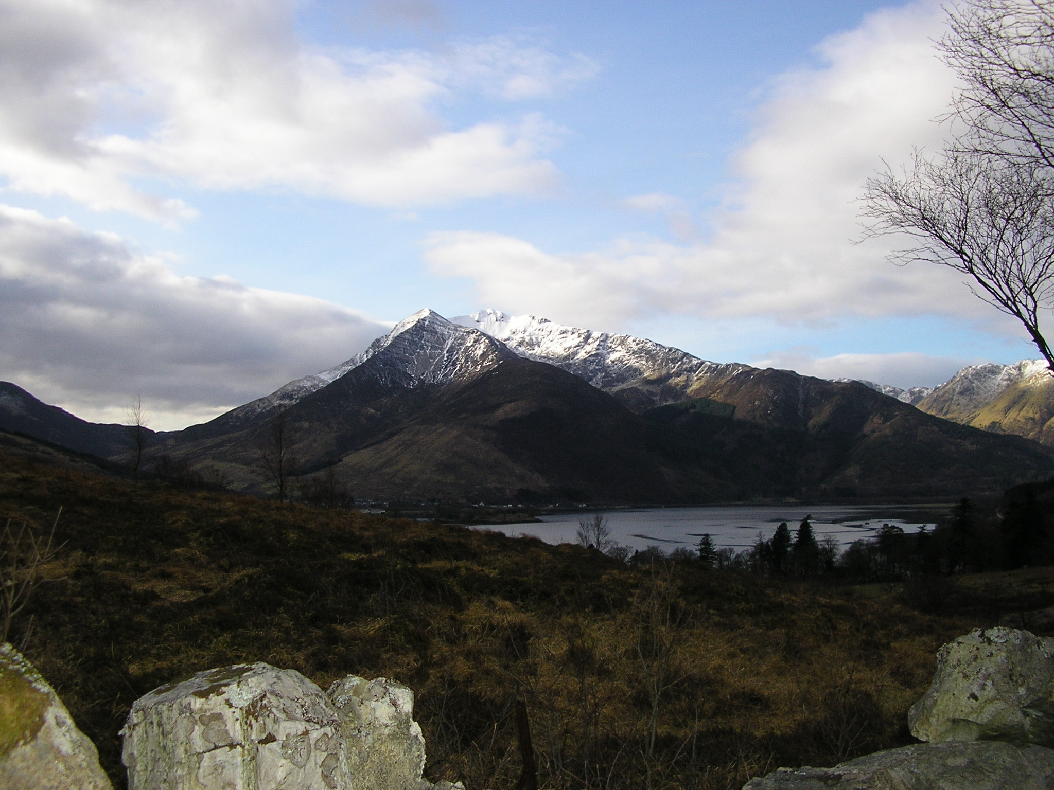 A picture of Beinn a'Bheithir taken March 2005 by User:Grinner.